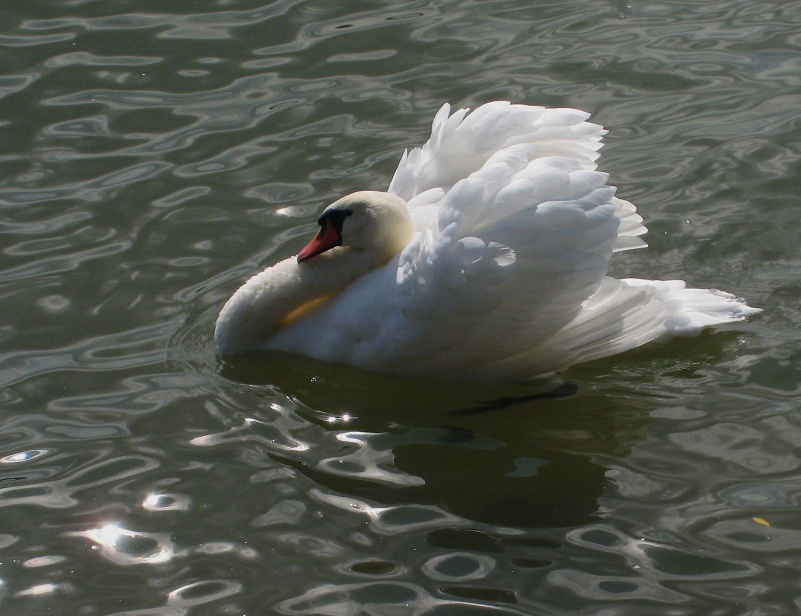 Mute swan posing aggressively